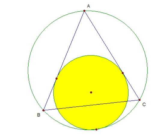 A mixtilinear incircle is tangent to two sides of a triangle and to its circumcircle. Shown is the one opposite vertex A, filled in yellow; there are two others not shown.